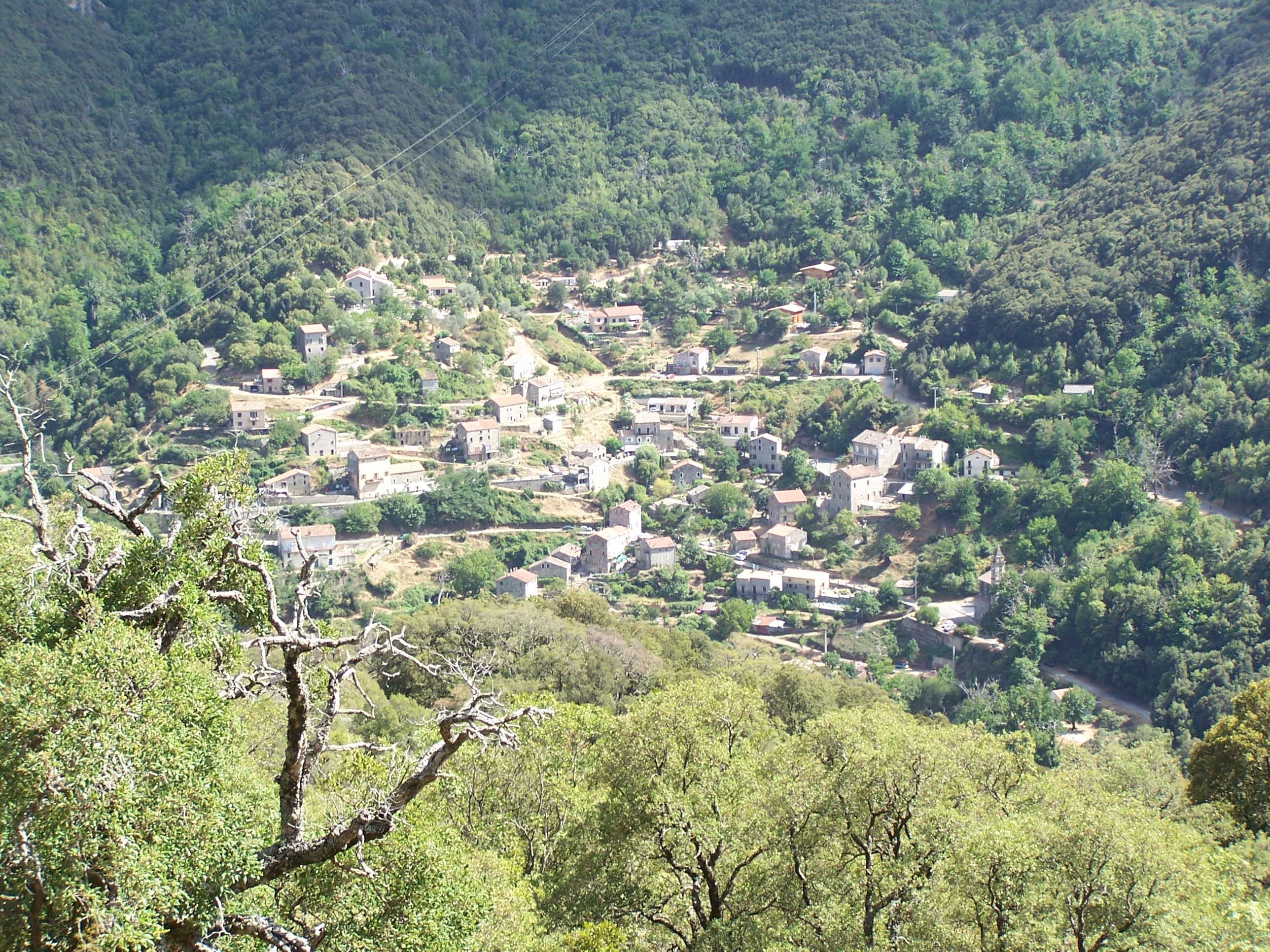 Zoza